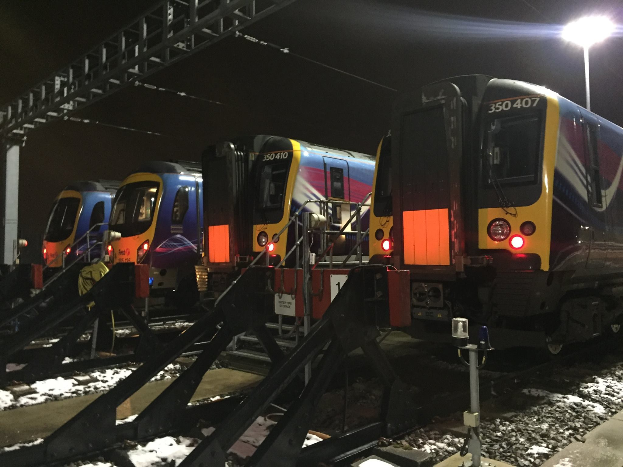 Class 350 units stabled for the night after cleaning and fueling. They won’t get long in bed before they get kicked out on the next tour of duty.